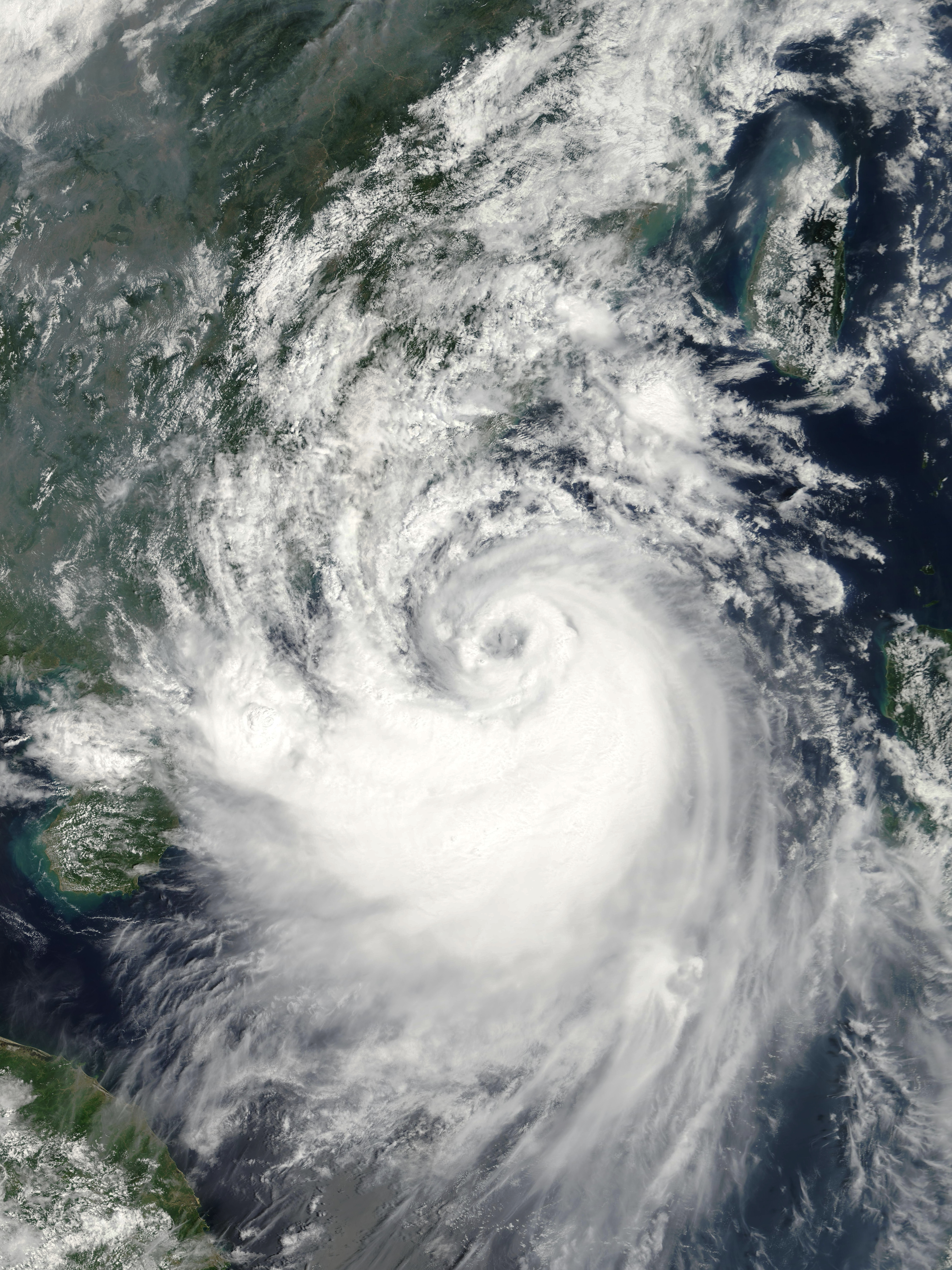 Tropical Storm Koppu (16W) approaching China